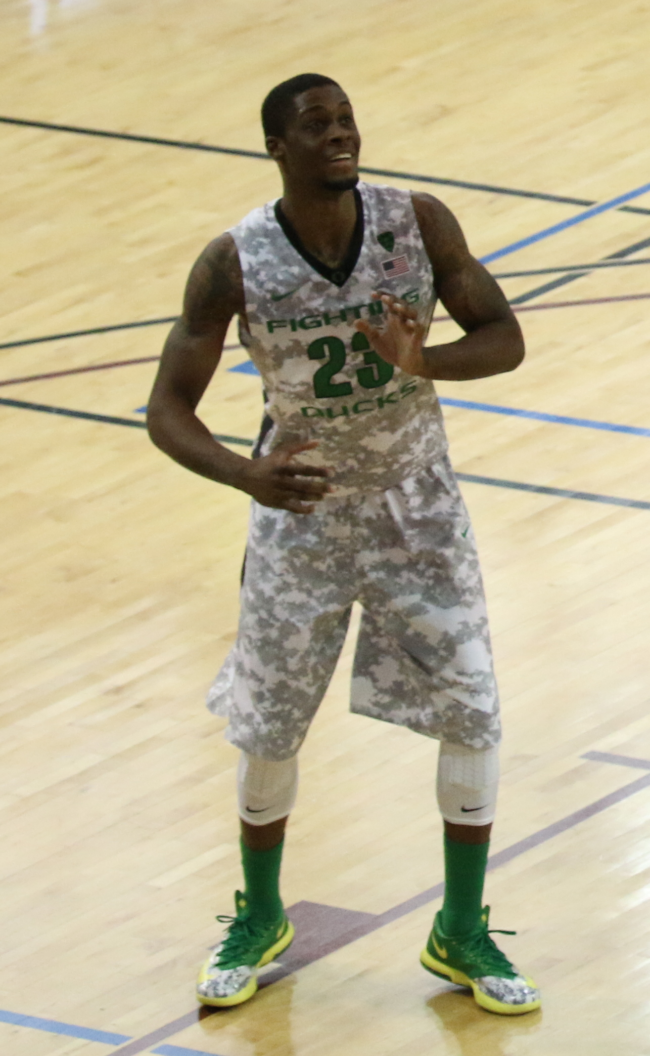 ESPN Armed Forces Classic NCAA Men's Basketball - U.S. Army Garrison Humphreys, South Korea - 9 Nov. 2013 photo by Richard Kim